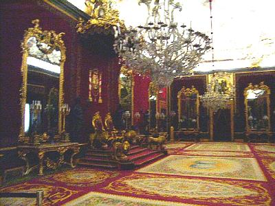 The Throne room in the Royal Palace in Madrid (ESP).